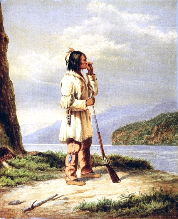 Huron-Wendat Hunter Calling a Mooselabel QS:Lfr,"Un chasseur huron-wendat appelant l'orignal"